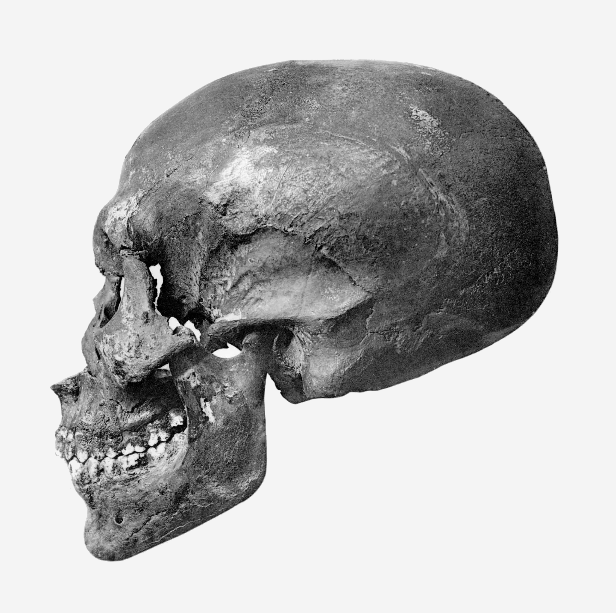 Left profile view of the skull found in tomb KV55. Image derived from Grafton Elliot Smith's "The Royal Mummies" (Plate XXXVI), which was first published in 1912. The author died in 1937 so the book/image is in the public domain. Recent genetic tests have conclusively demonstrated that this individual was the father of Tutankhamun. The JAMA eSupplement from Feb. 17, 2010 concludes tha "the results demonstrate that the mummy in KV55 is the son of Amenhotep III and father of Tutankhamun, leading to the assumption (also supported by the radiological findings) that the mummy can be identified as Akhenaten." (eSupplement, p.3).